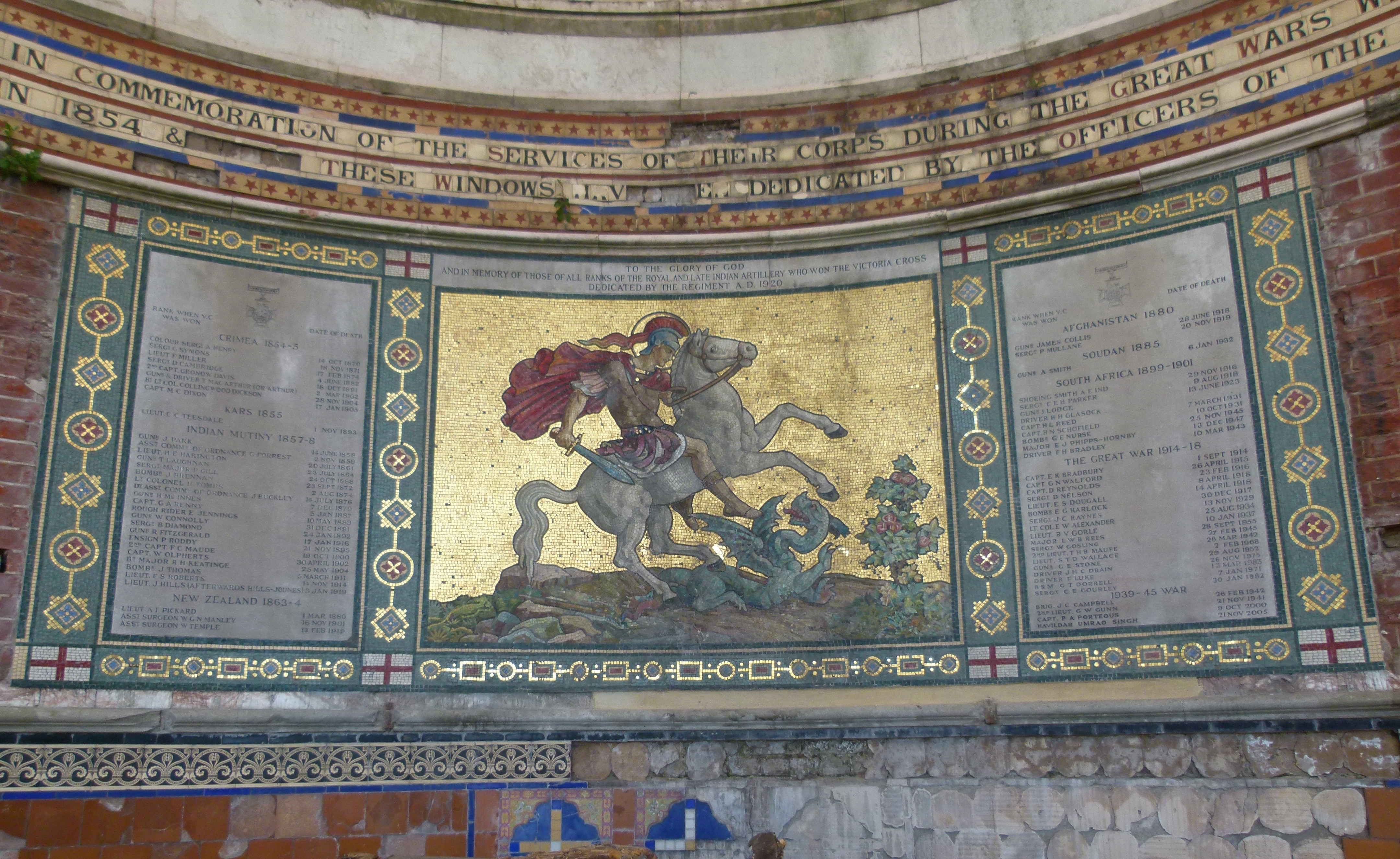 Mosaic in the ruined interior of the Royal Garrison Church of St George, Woolwich, south east London, UK.